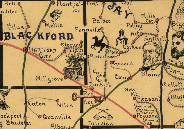 Blackford County and western Jay County portion of Indiana railway mail service map